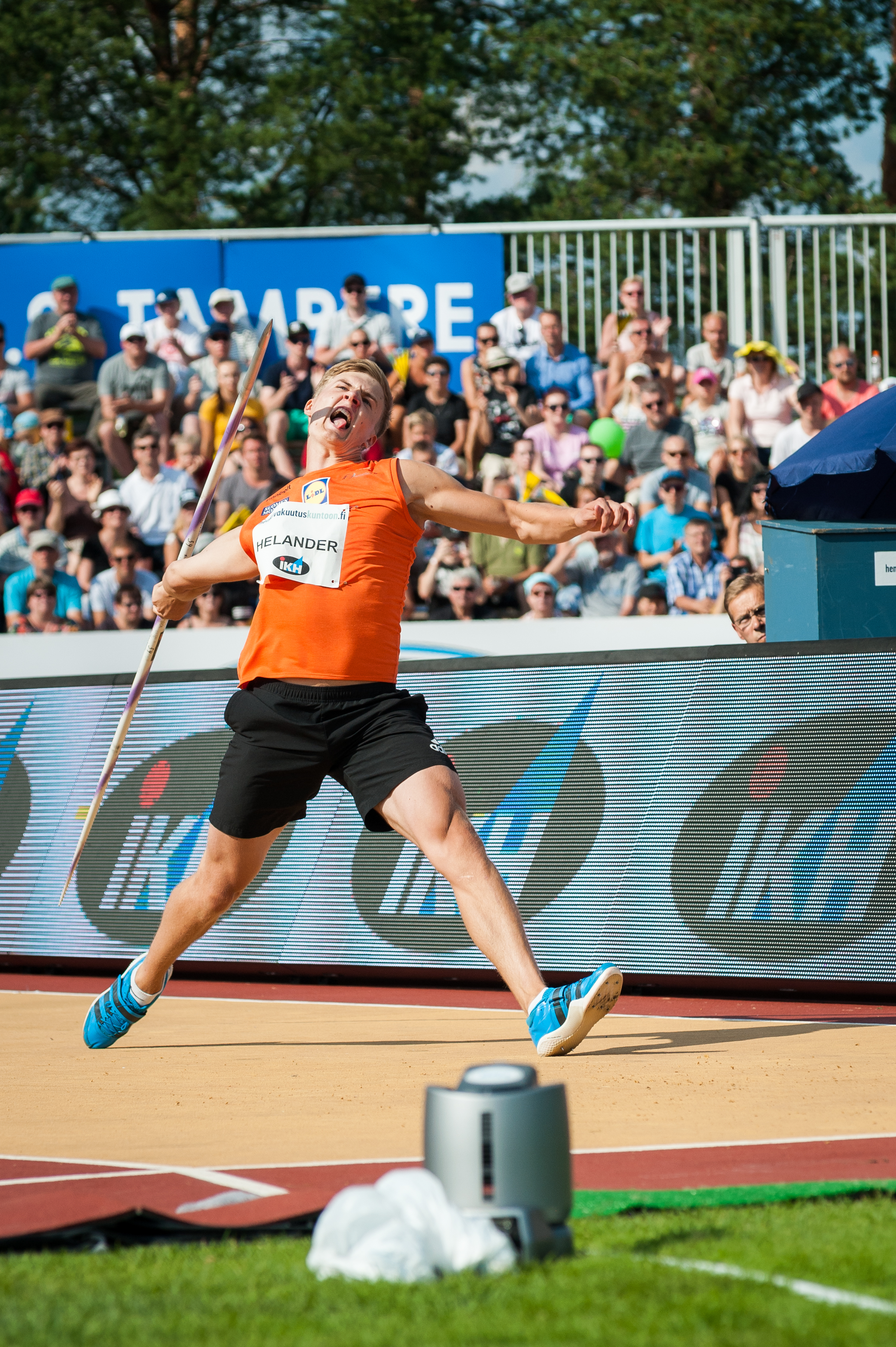 Men's javelin throw competition at the 2018 Kalevan Kisat, the Finnish championships in athletics, in Jyväskylä, Finland.